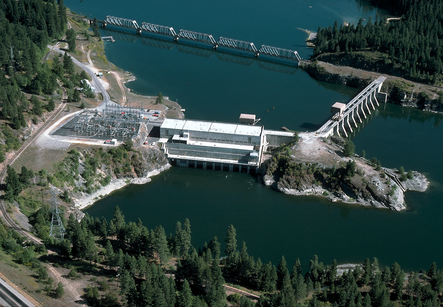 The Albeni Falls Dam on the Pend Oreille River — in Bonner County, within the Idaho Panhandle. Located between the towns of Oldtown and Priest River.